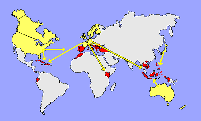 Map of destinations that Female Sex Tourist Flock to during their sex tours. Countries of origin Countries of destination